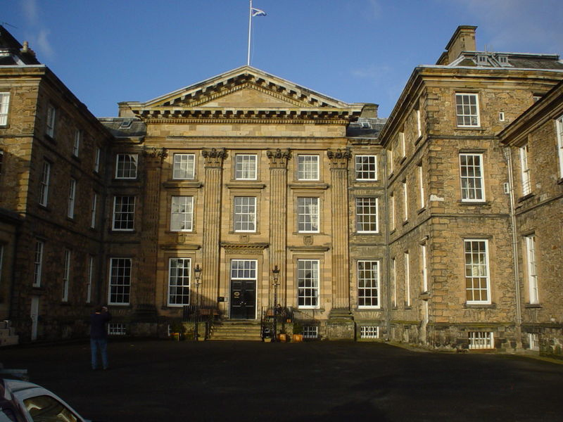 Detail of the front facade of Dalkeith Palace